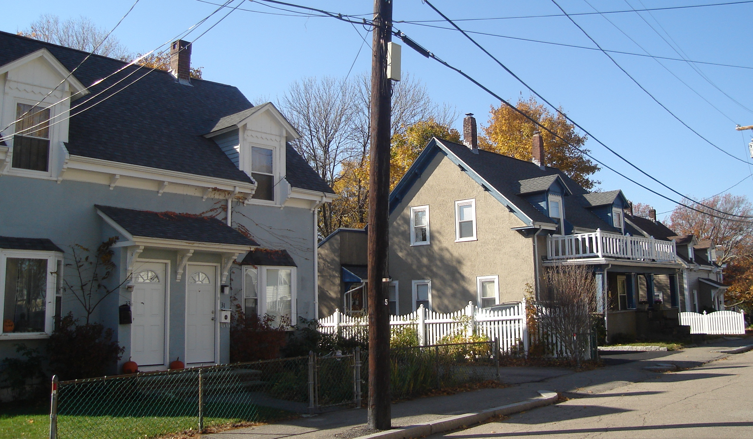 Streetscape of Baxter Street Historic District in Quincy, Massachusetts, built in c. 1880 and added to the National Register of Historic Places in 1989. External link